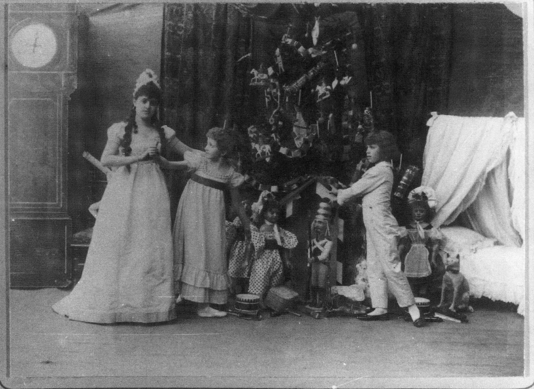 Photo taken by an unknown photographer at the Mariinsky Theatre, St. Peterbsurg, Russia of the dancers Stanislava Belinskaya, Lydia Rubtsova, & Vassily Stukolkin in "The Nutcracker", 1892. Photo comes from my own collection and was scanned by me. Mrlopez2681 01:22, 10 August 2006 (UTC)